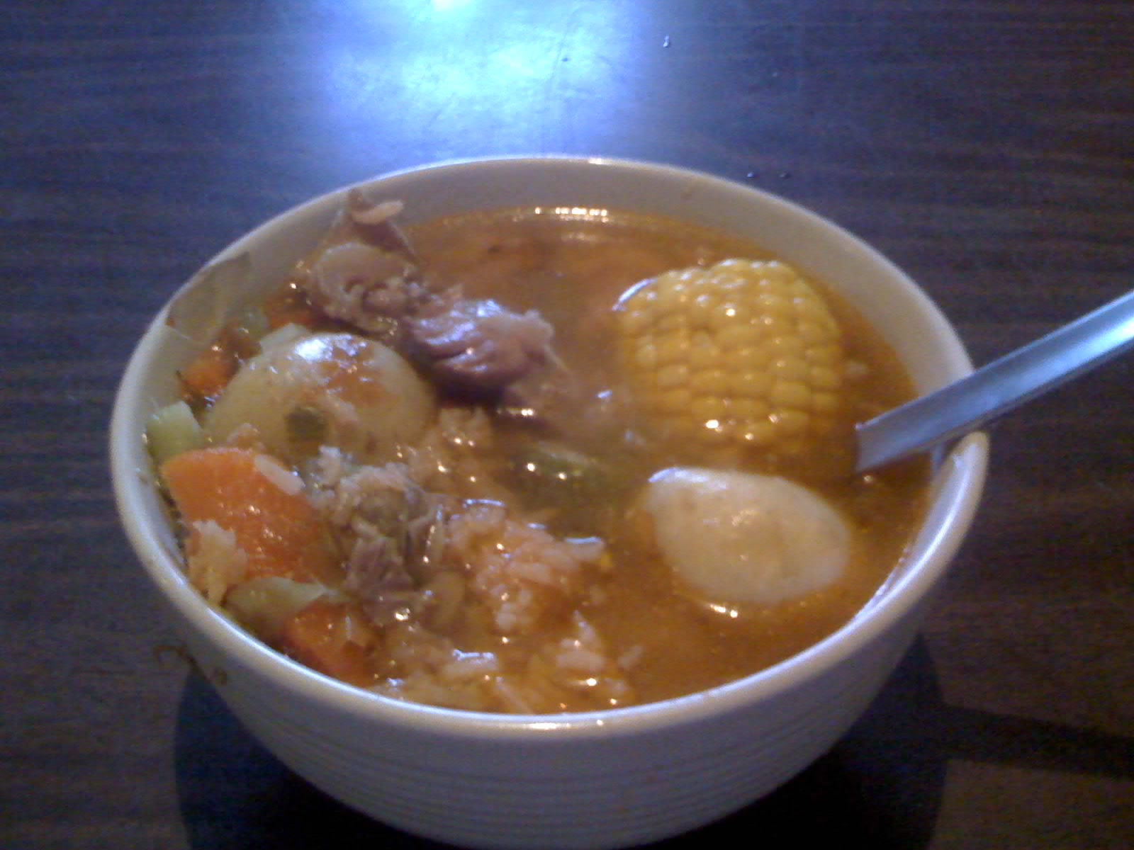 Caldo de res, a Mexican food made with corn, green beans, potatoes, carrots, potatoes, cabbage and cilantro.